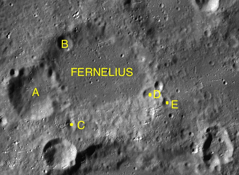 Part of the chart LAC-112 used for the presentation